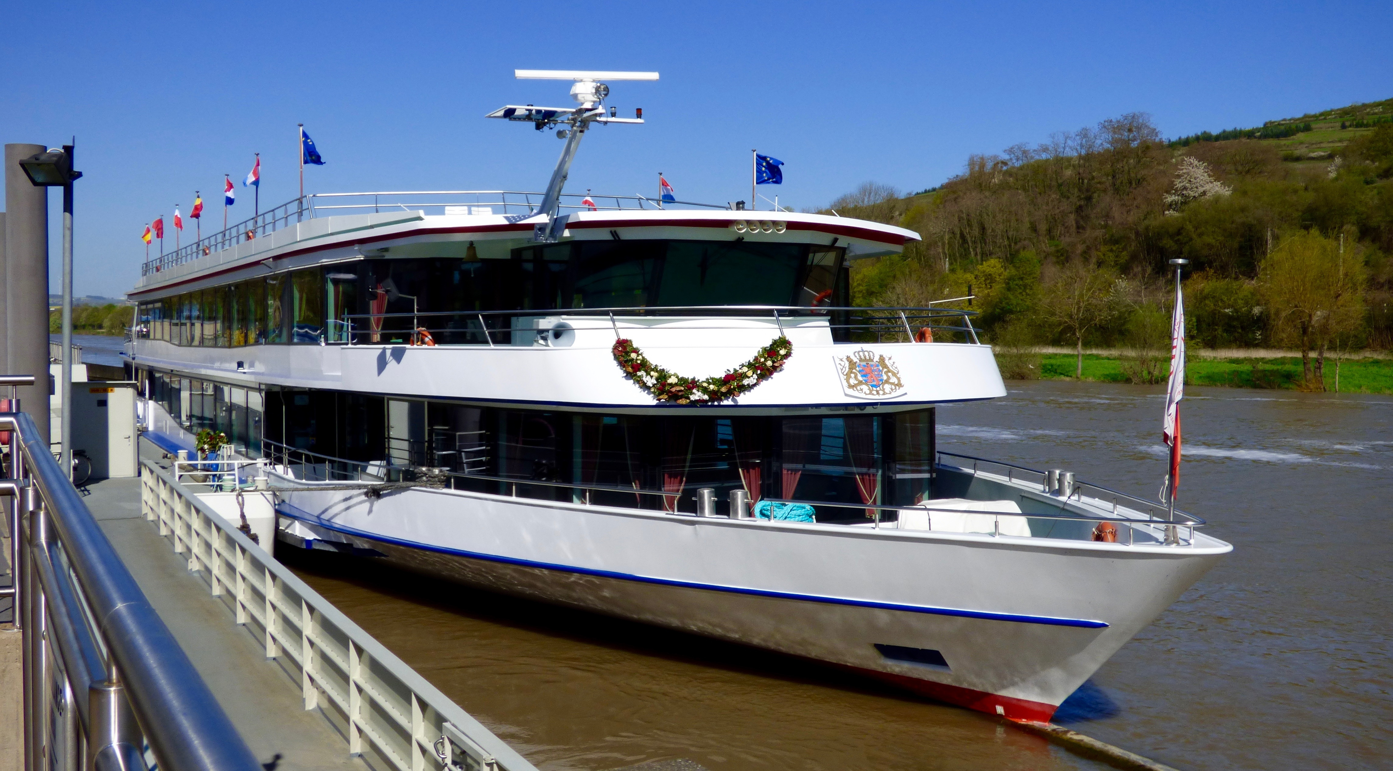 MS PR MARIE ASTRID celebrated her 50th birthday in April 2016